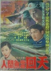 Movie poster for 1956 Japanese movie (人間魚雷回天 Ningen gyorai kaiten).